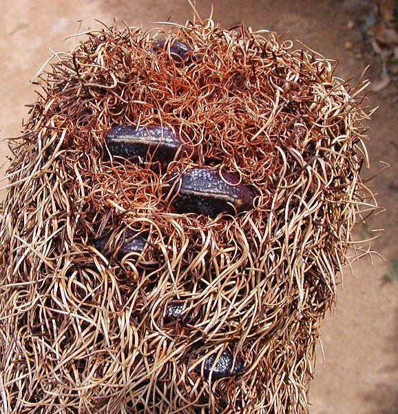 Banksia epica cone with purple follicles, Banksia Farm